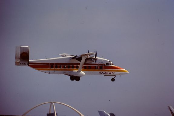 Manufacturer: Short Designation: 330 Airline: Golden West Serial Number: N335GW